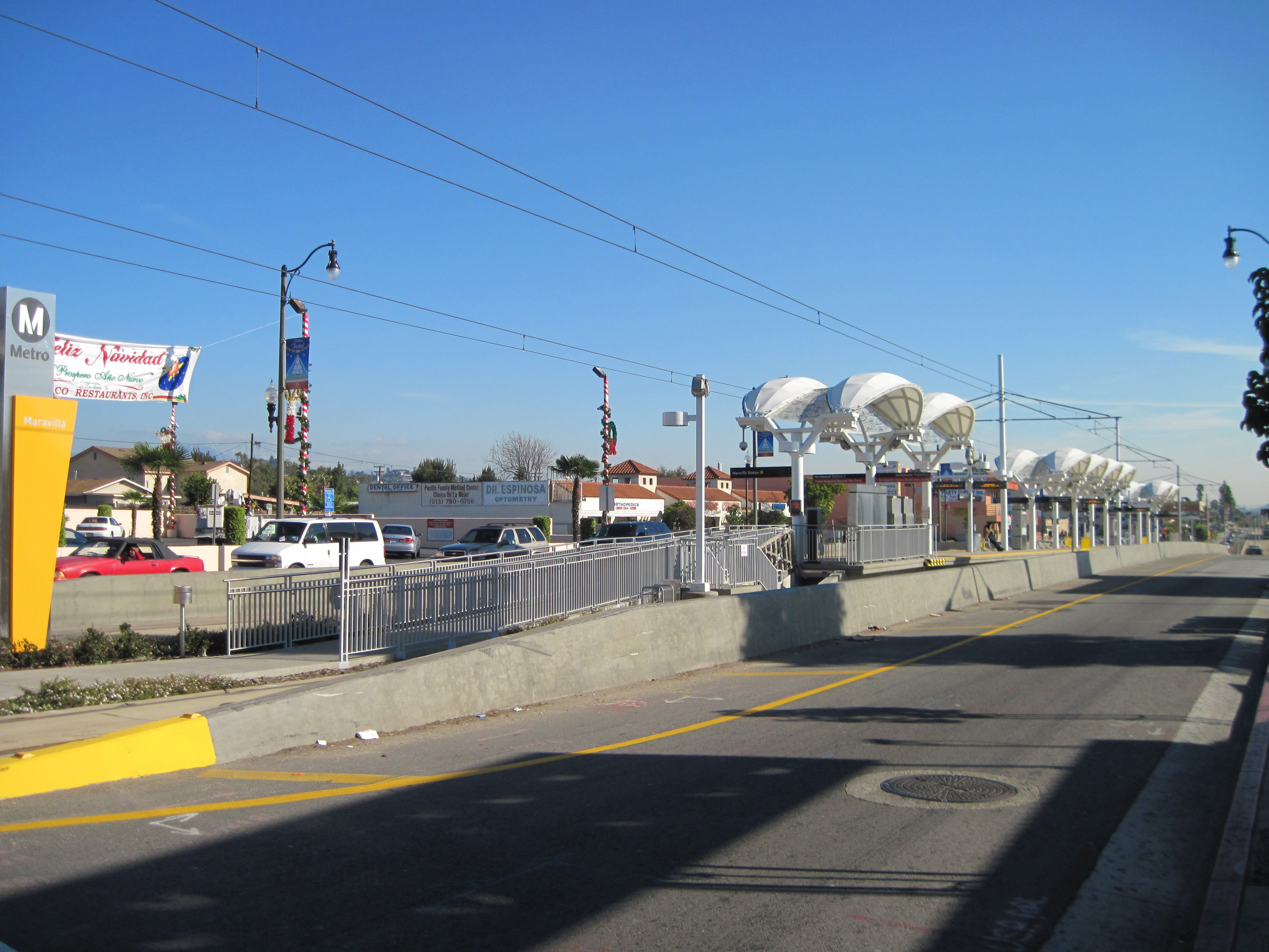 The Los Angeles County Metropolitan Transportation Authority's Maravilla station, serving the Metro Gold Line in Los Angeles, California, USA.